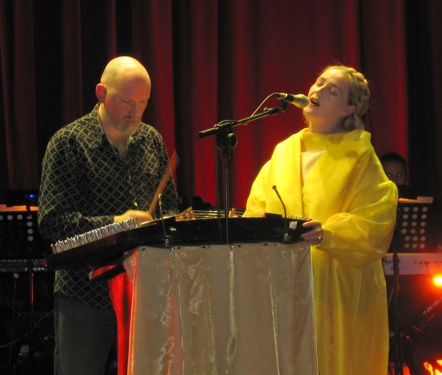 Dead Can Dance (Brendan Perry & Lisa Gerrad)